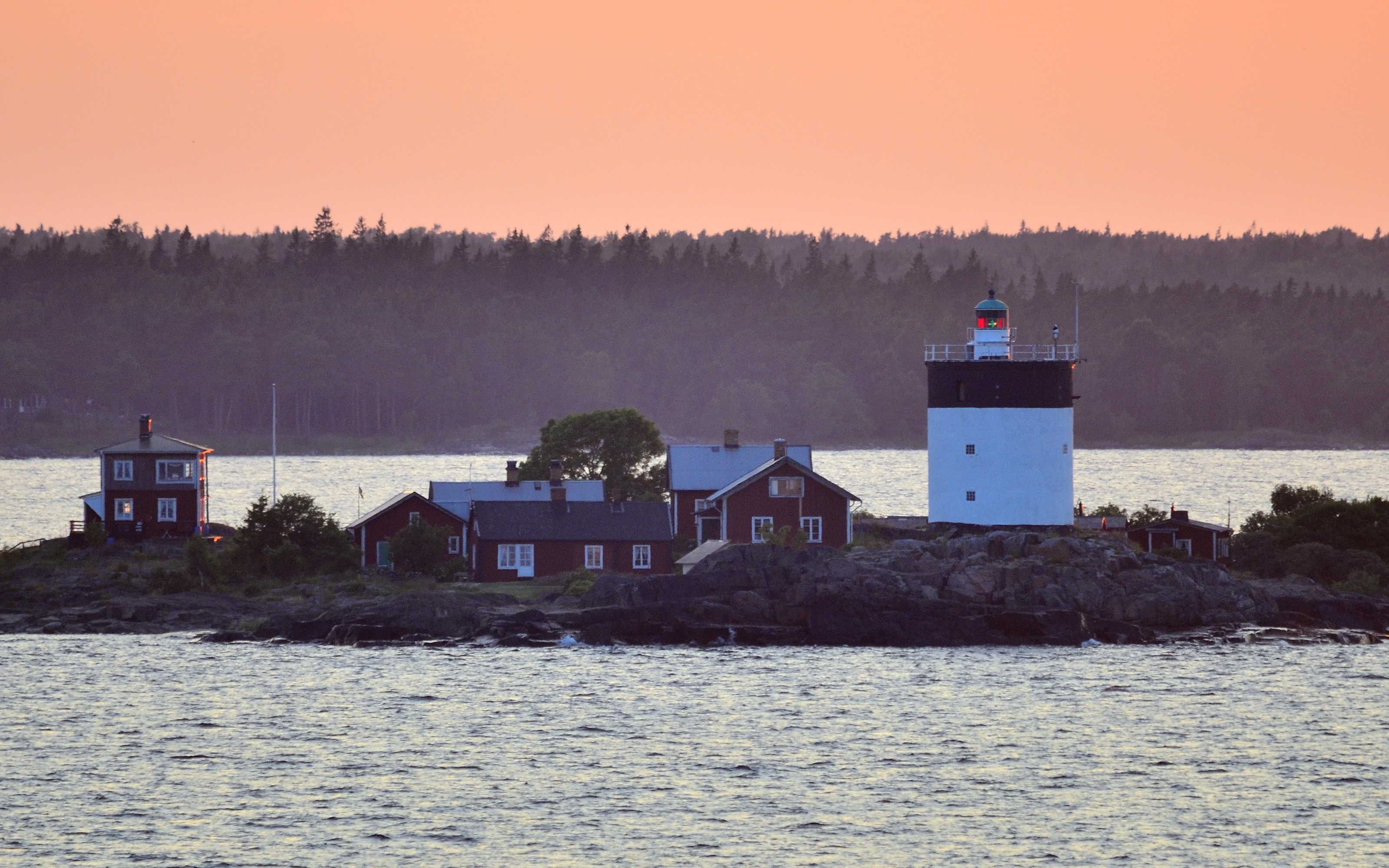 The lighthouse station at the isle Svartklubben east of Singö, Sweden.